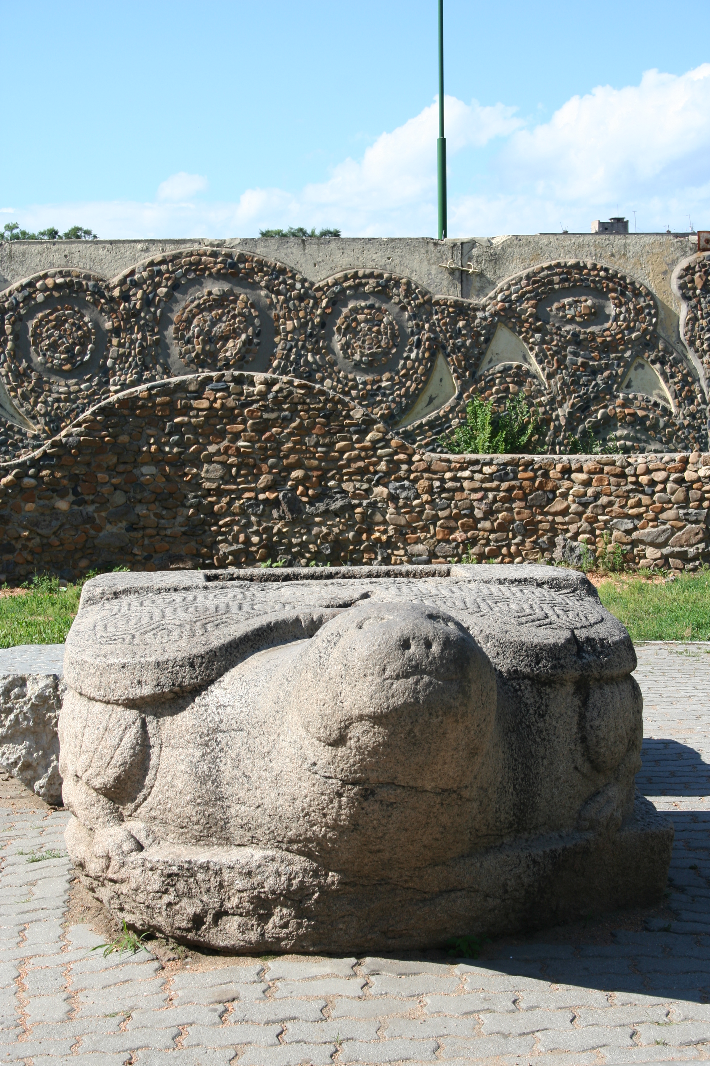 A stone tortoise in the central park of Ussuriysk. It was found by early Russian settlers in 1868, and is believed to have been a gravestone of a circa-12th century Jurchen leader.